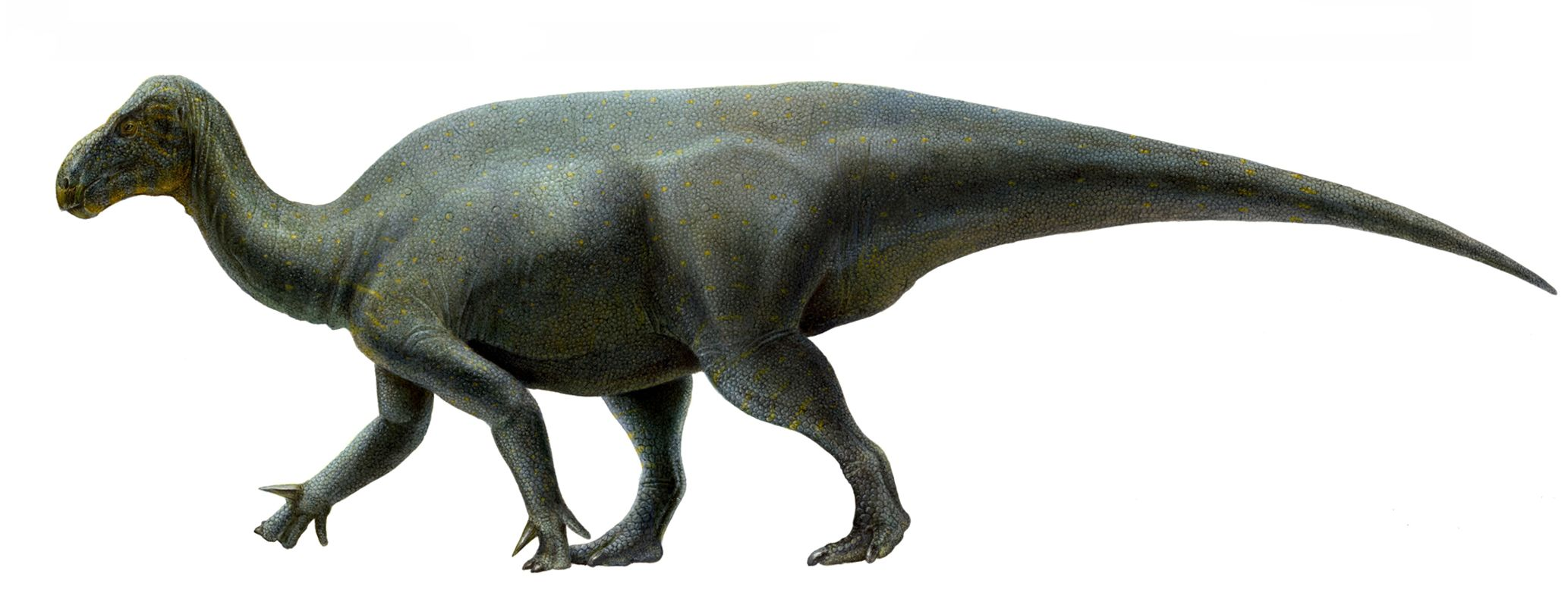 Life restoration of Iguanacolossus fortis.